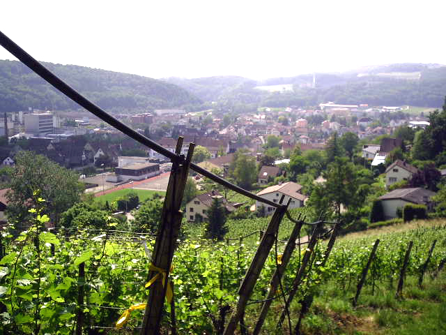 Views over vineyards towards Schaffhausen Thayngen